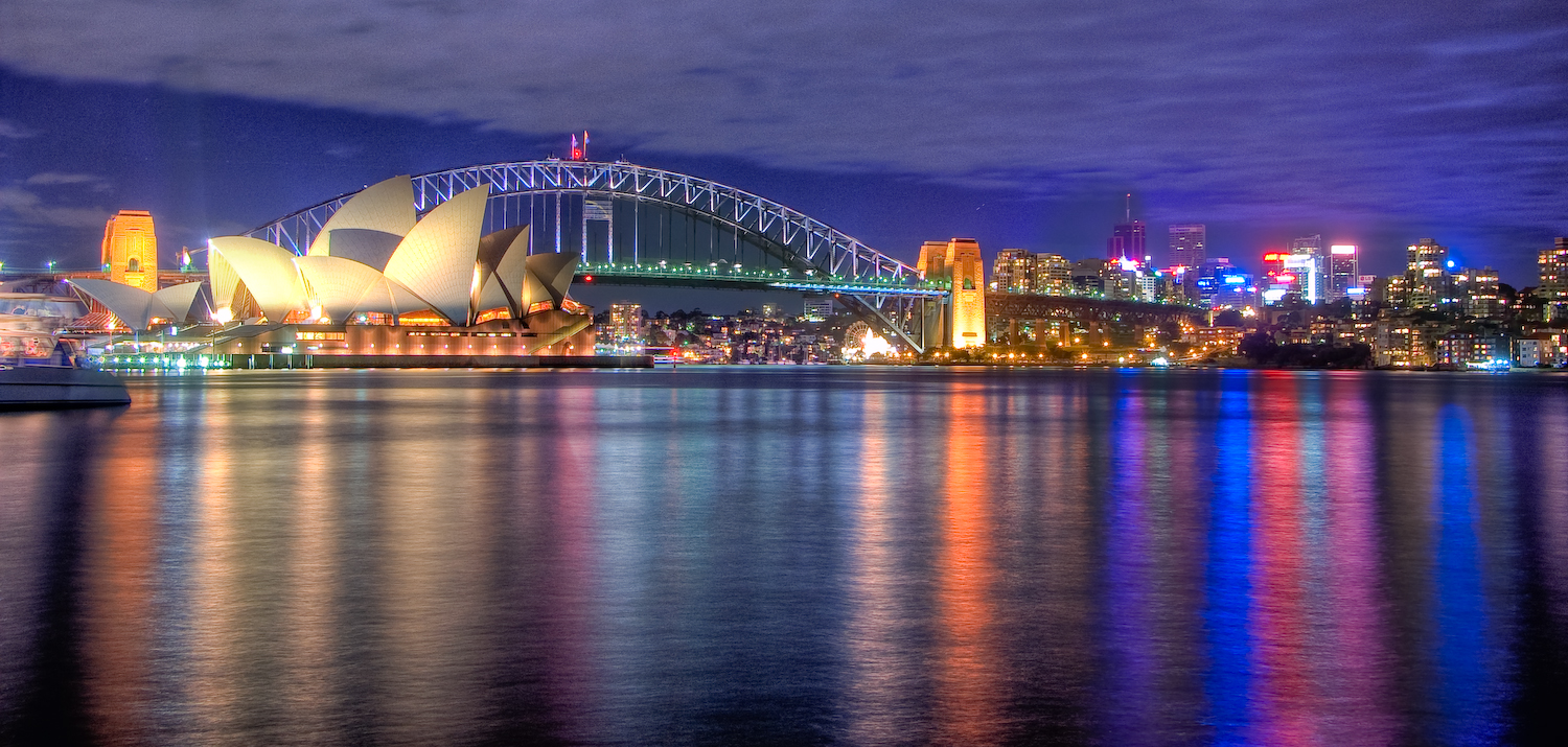 Sydney Opera House HDR Sydney Australia